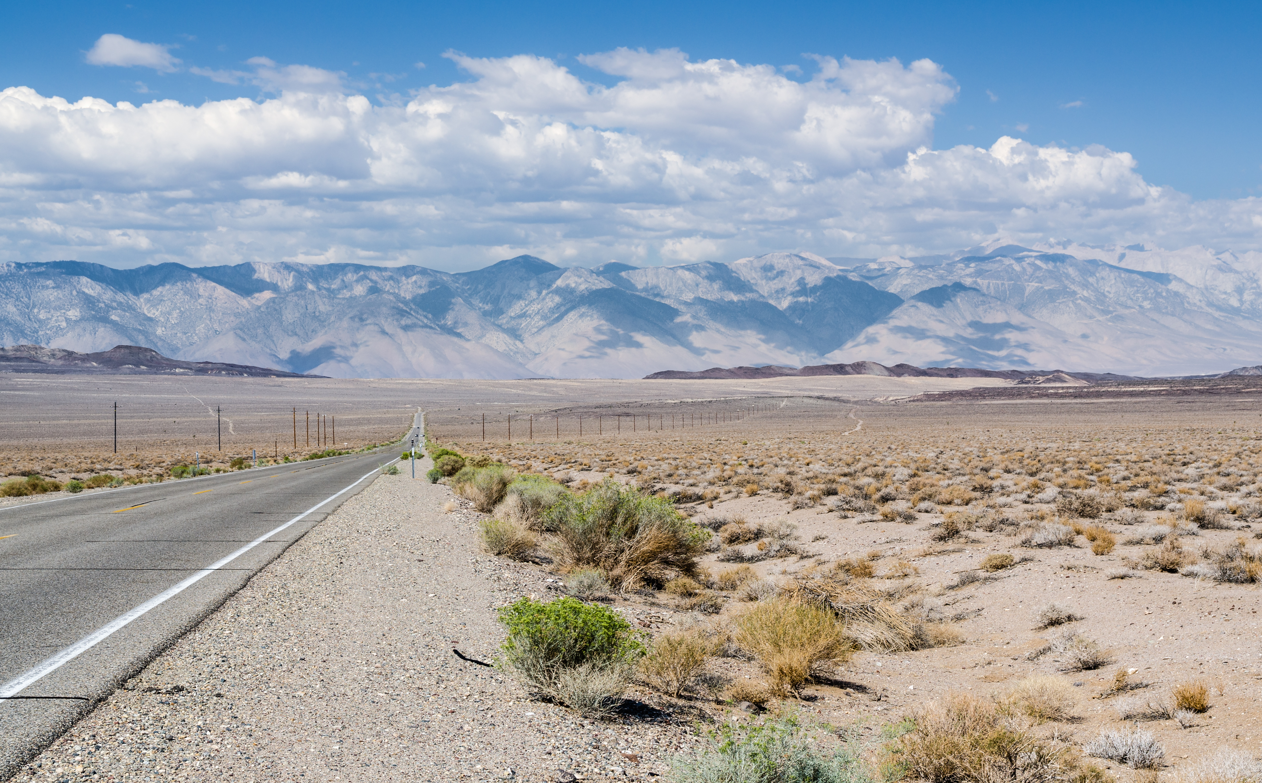 California State Route 190 near Panamint Springs Resort at the end of Death Valley